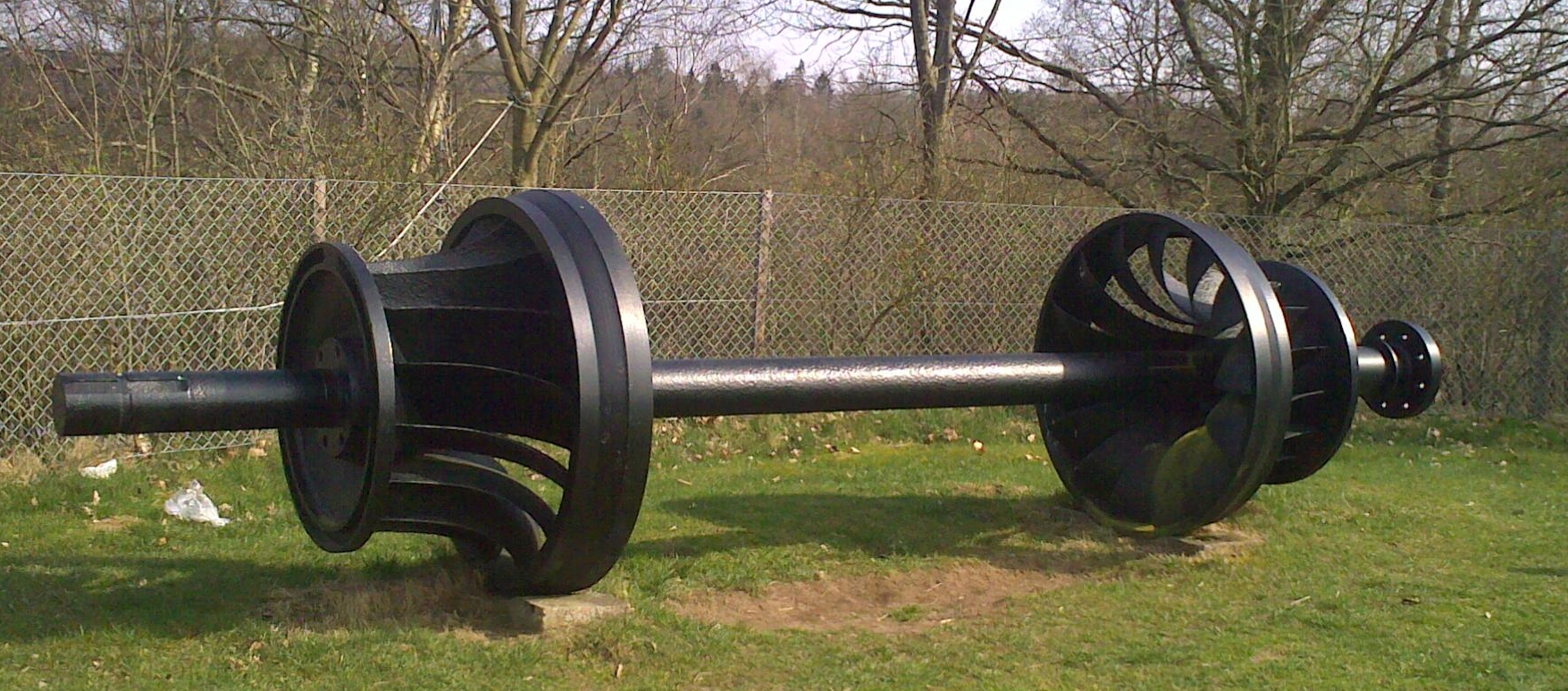 Water turbine blades at the Danish Museum of Electricity